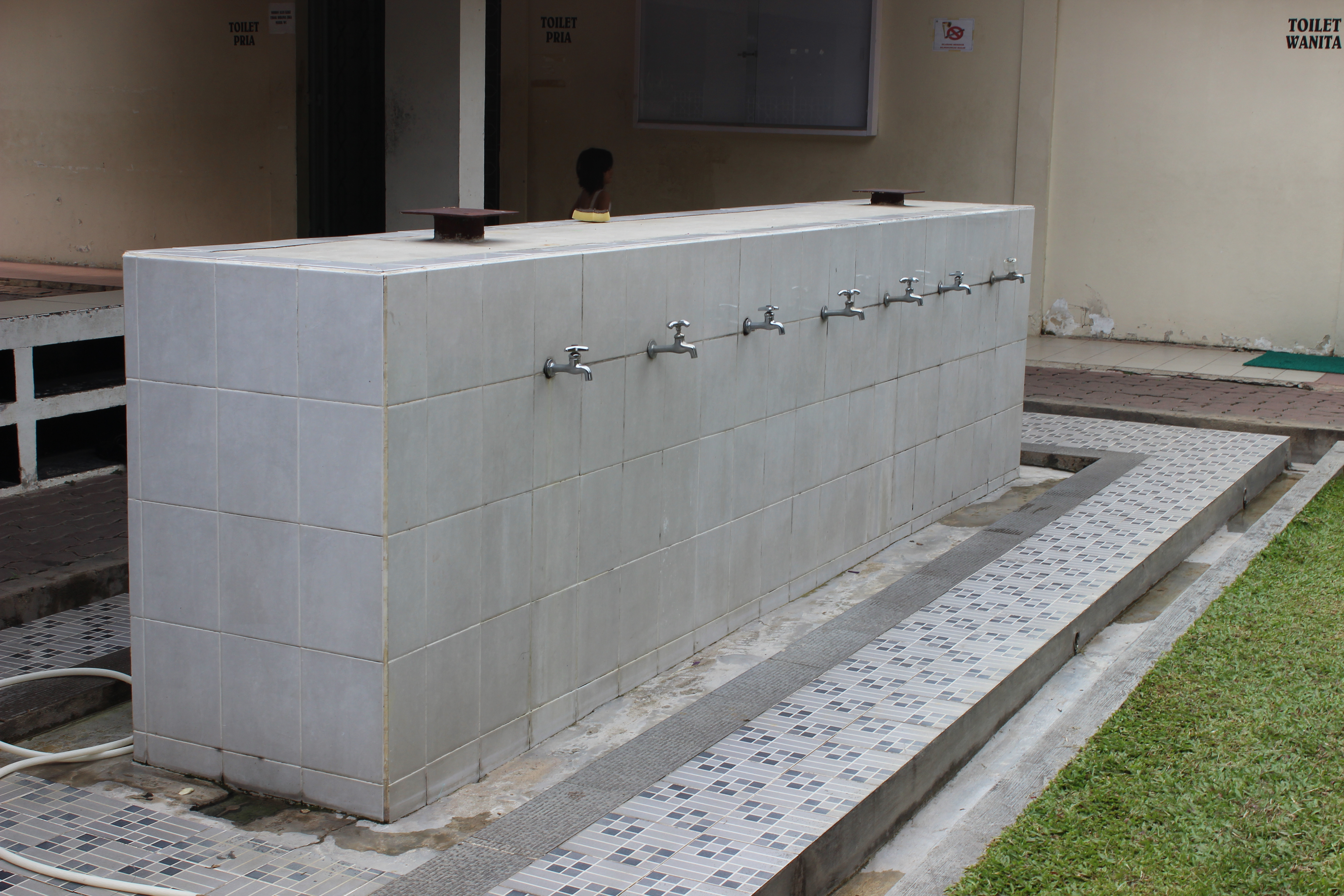 Ablution (wudu) tap in Al-Ittihad Mosque, Pekanbaru.